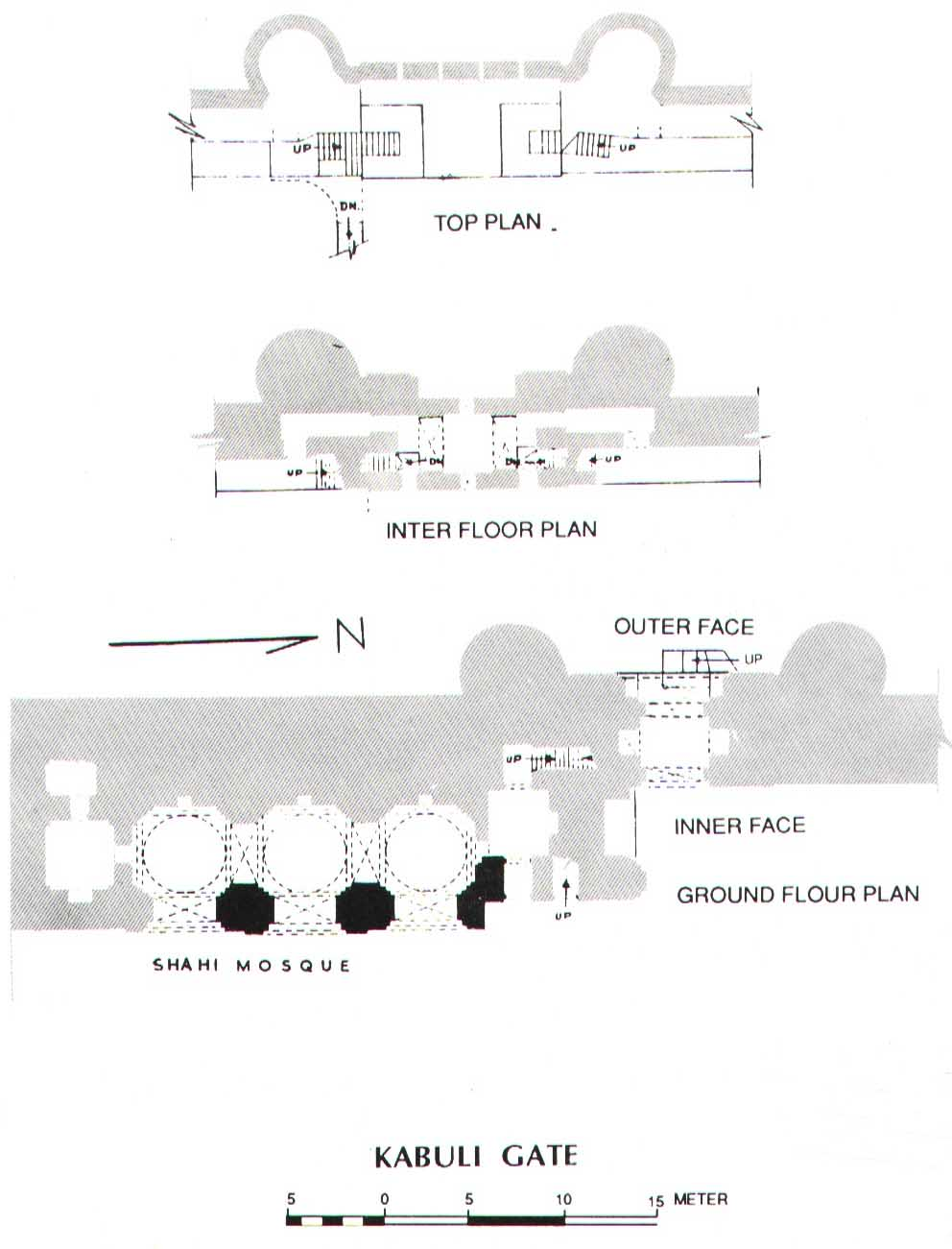 mistype in comment. The image is from Architectural Survey of India maps. It was first drawn in "Annual Report of Archaelogical Survey of India: 1922-23: Delhi". After 1947(Pakistan) it has been in public domain and been freely used in many books including the one i quoted in the reference.